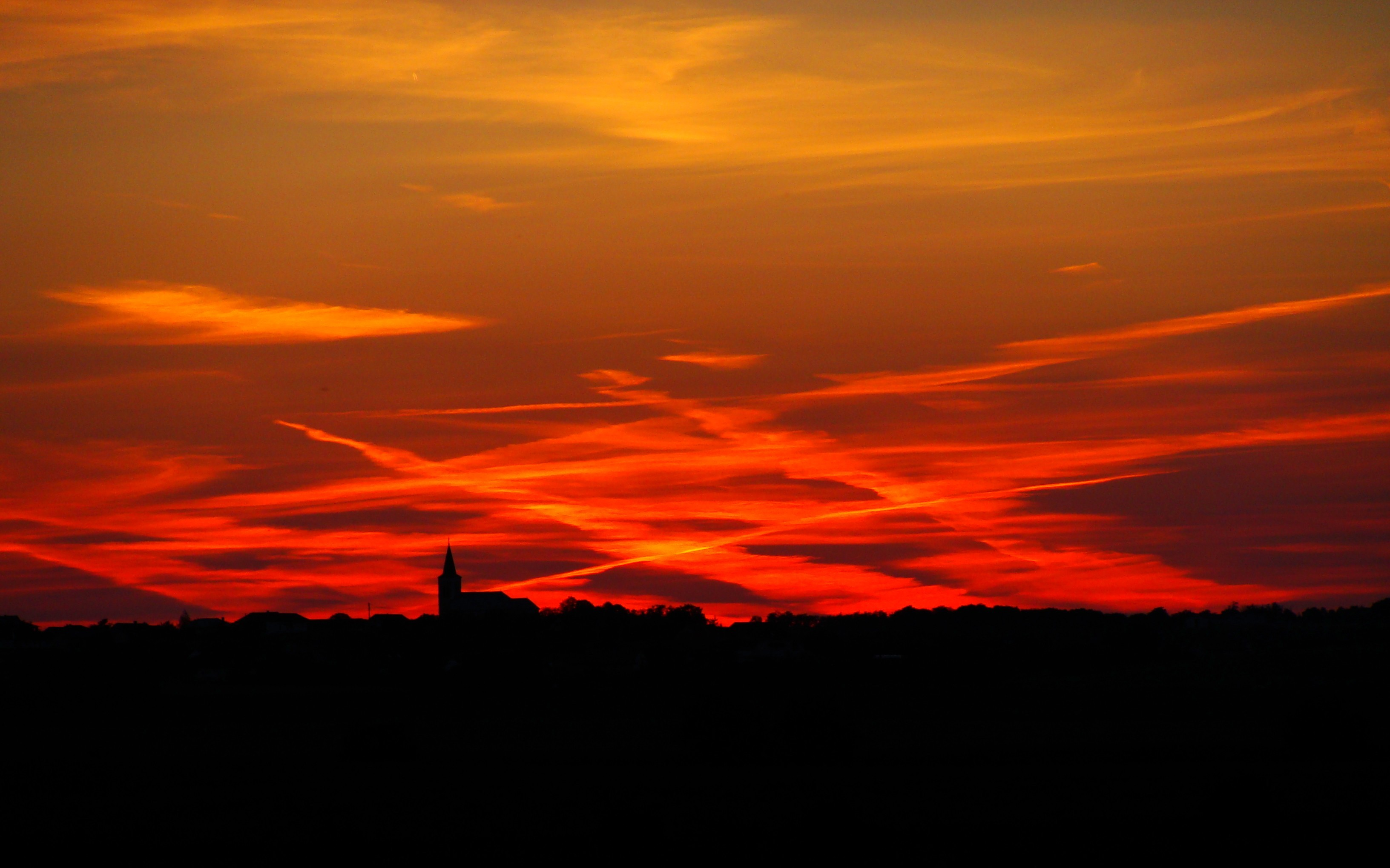 Sunset over Úrhida; Fejér County, Hungary